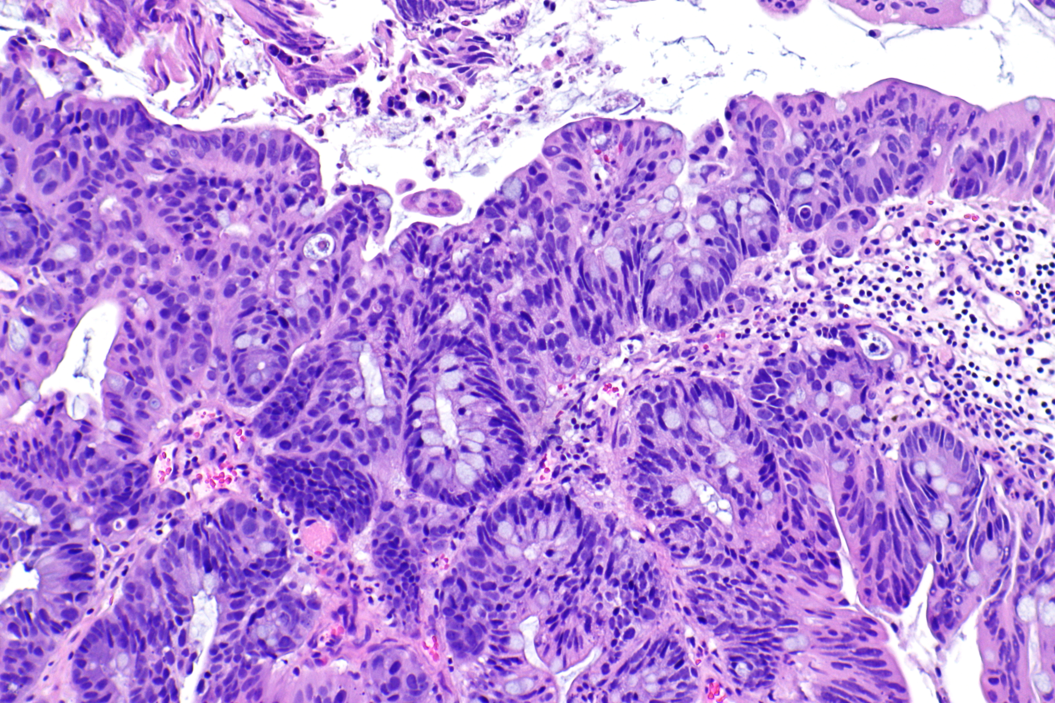 Micrograph showing adenocarcinoma of the urinary bladder compatible with a bladder primary. H&E stain or Beta-catenin immunostain. Transurethral biopsy. The differential diagnosis includes: Primary adenocarcinoma of the urinary bladder. Urachal adenocarcinoma. Urothelial carcinoma with glandular component - where the conventional urothelial carcinoma is not sampled. Metastatic adenocarcinoma (of the colorectum) is essentially excluded by the lack of nuclear beta-catenin staining. Related images AUB - low mag. AUB - intermed. mag. AUB - high mag. AUB - beta-catenin - low mag. AUB - beta-catenin - intermed. mag. AUB - beta-catenin - high mag. AUB - beta-catenin - very high mag.